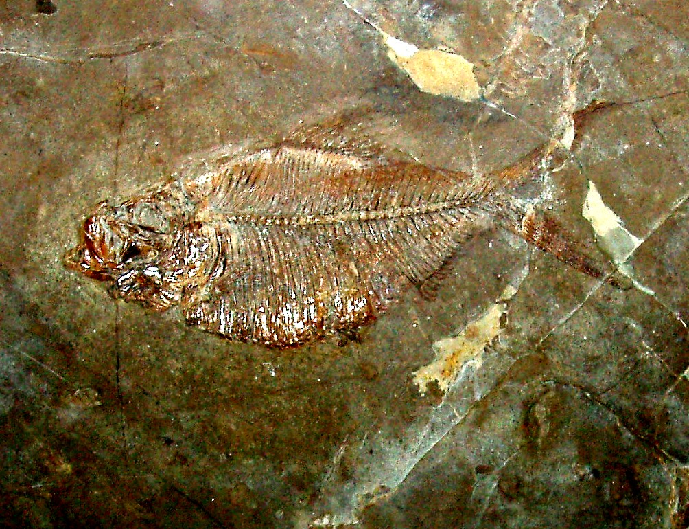 Fossil of Diplomystus brevissimus, = Armigatus brevissimus, an extinct clupeiform fish